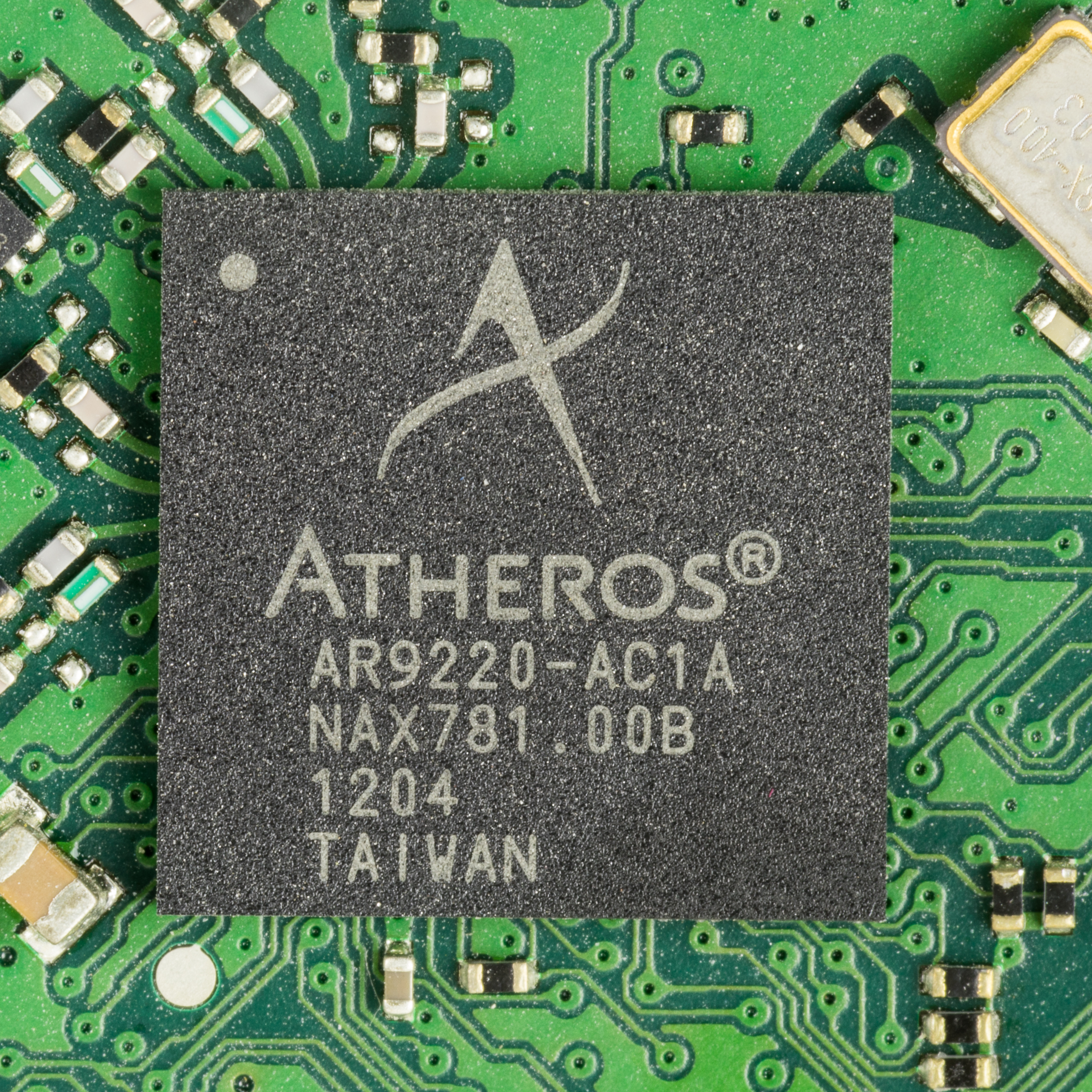 FRITZ!Box 7390 - Atheros AR9220-AC11 - Single-Chip 2x2 MIMO MAC/BB/Radio with PCI Interface for 802.11n 2.4 and 5 GHz WLANs